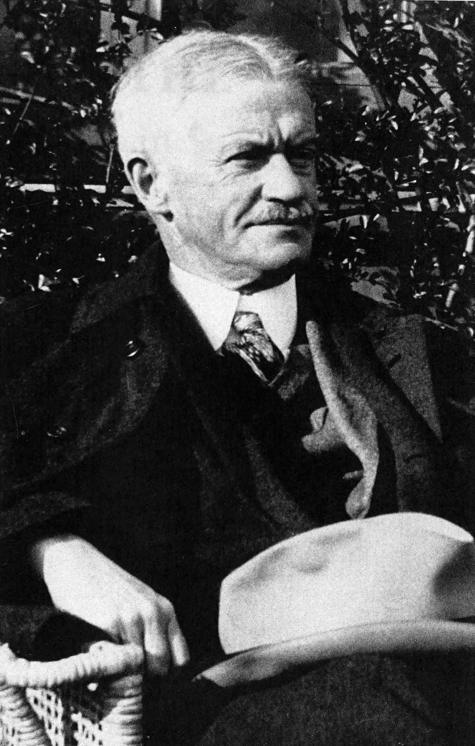 Depicted person: Albert Jay Nock